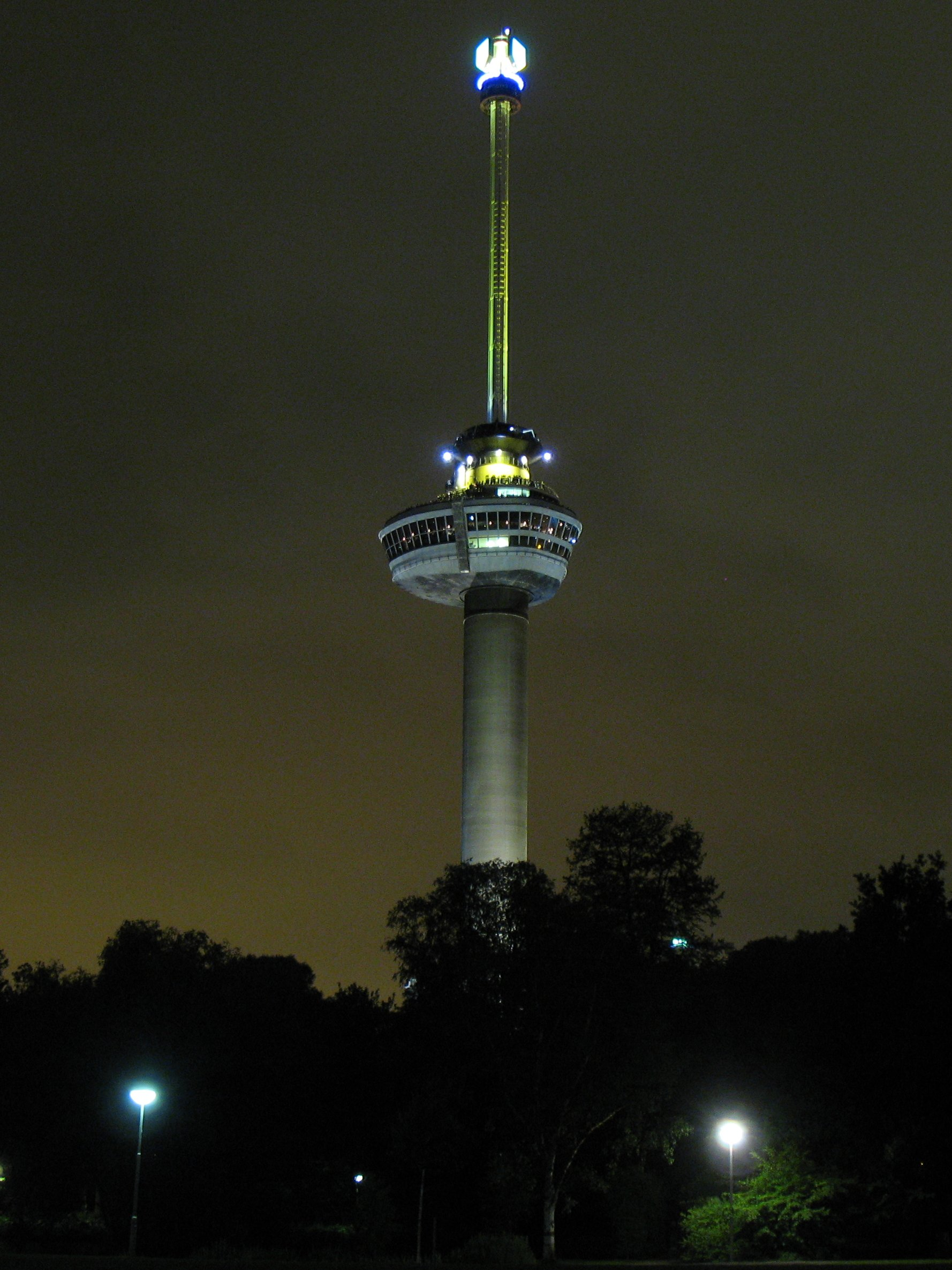 Photo of the Euromast at night